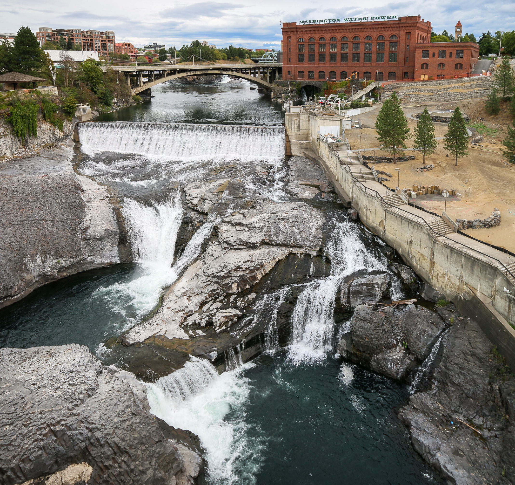 Monroe Street Dam on the Lower enSpokane Falls